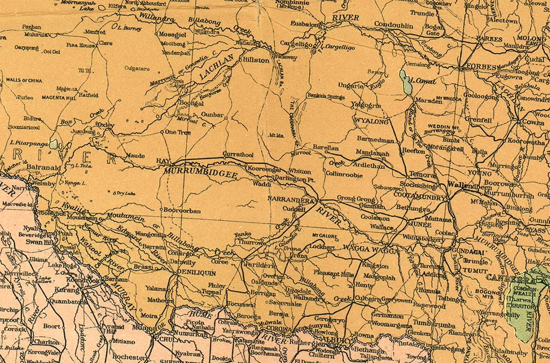 Map of the Riverina area in New South Wales, Australia, cropped from 1916 map of New South Wales.